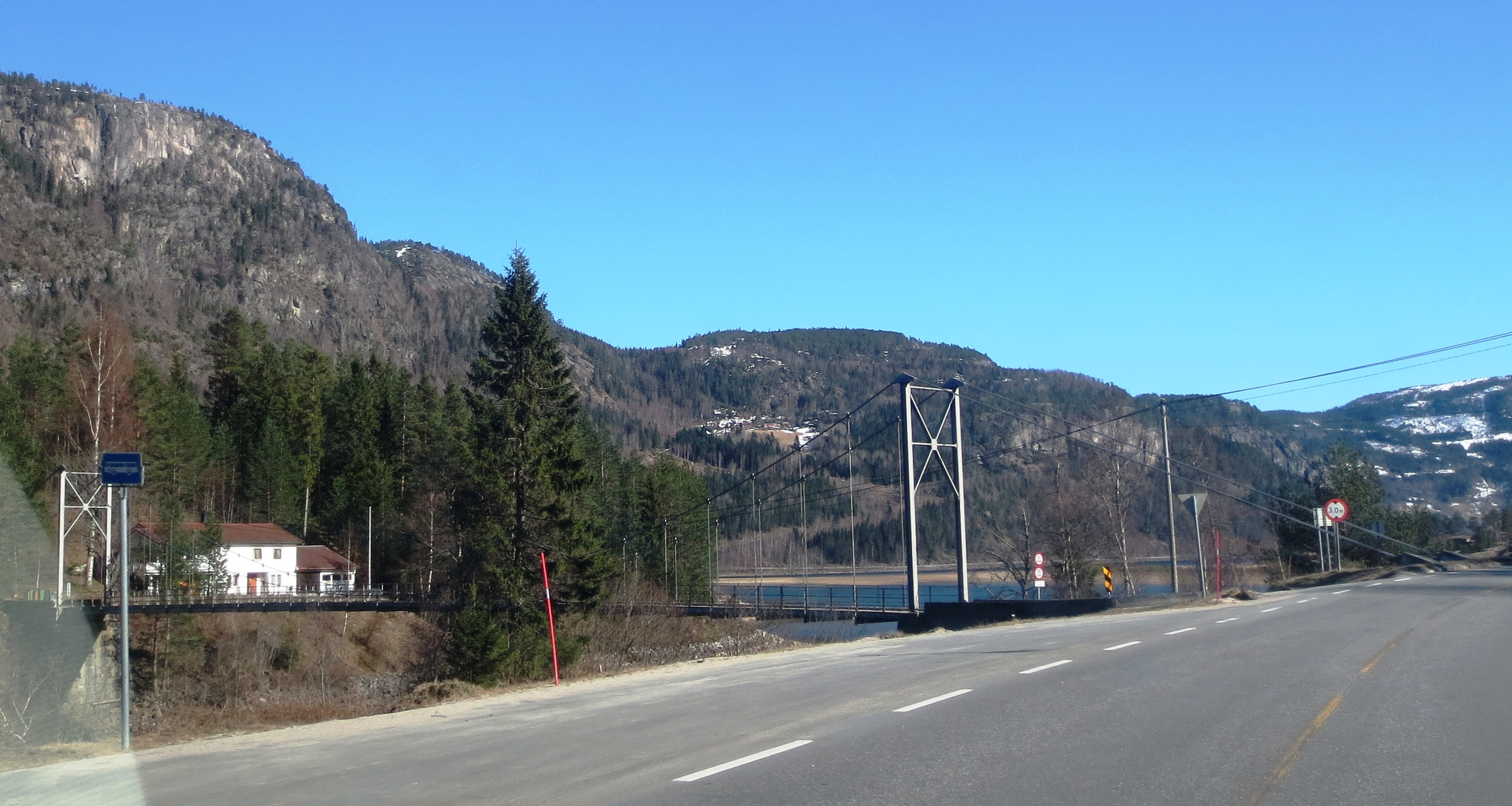 Image from the Ose township surroundings of Bygland municipality. In the Setesdalen valley, Aust-Agder county, Norway.